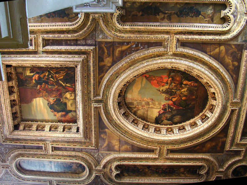 Church of San Sebastiano, Venice, Veneto, Italy. Coffered ceiling with paintings by Paolo Veronese, representing scenes from the Old Testament.